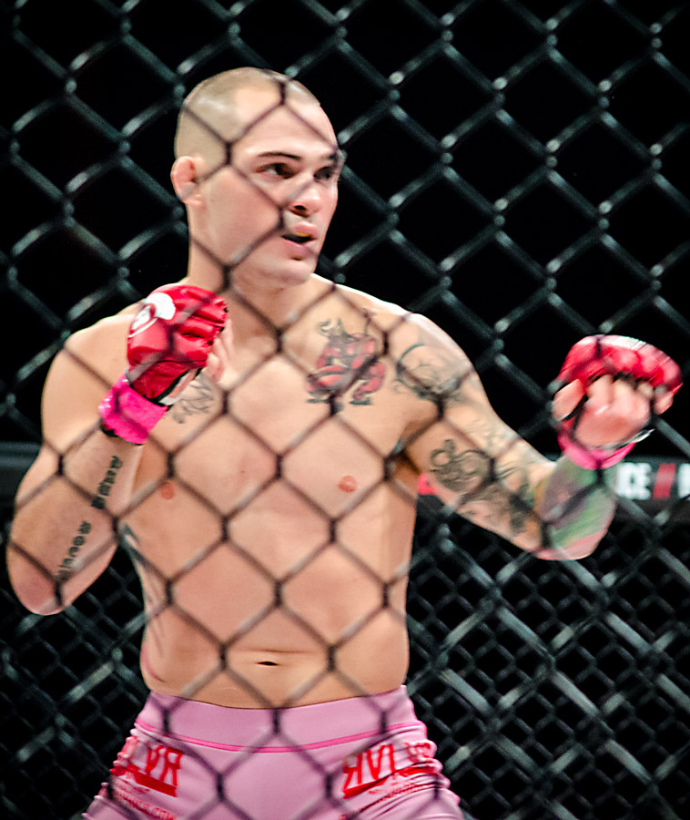 Matt Bessette fighting at Bellator 144